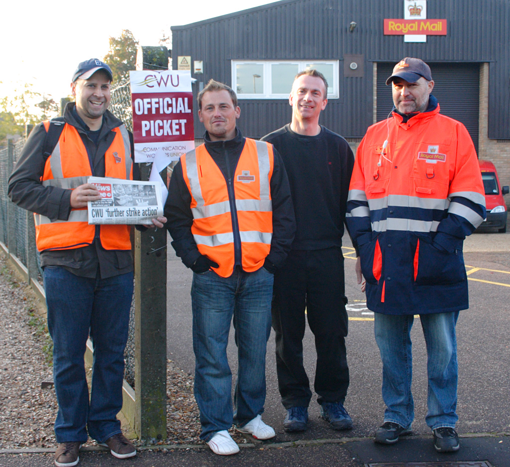 A cheerful and determined picket was held at the Royal Mail Bowthorpe depot, Norwich, England on the second day of the national UK postal strike against speed up, bullying, harassment, job losses, and privatisation being imposed by the management and the British Labour government